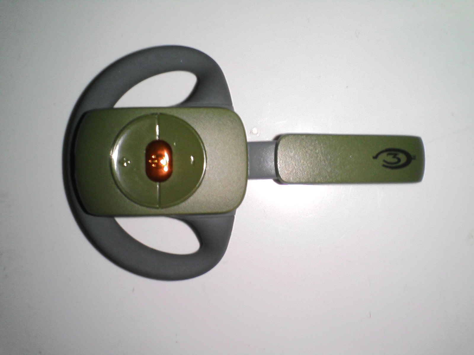 Xbox 360 Wireless Headset (Halo 3 Edition)